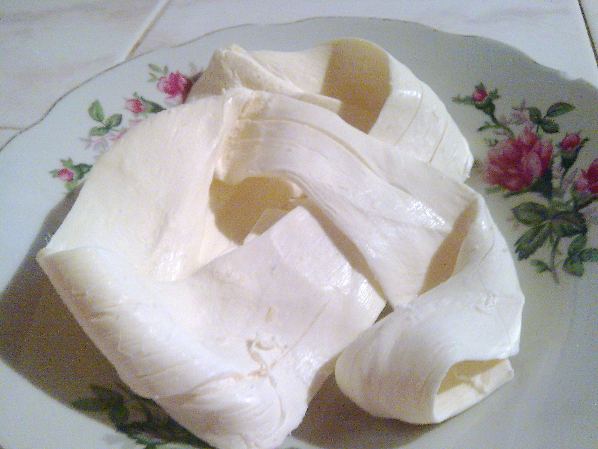 Queso Oaxaca cortado en trozos en plato.